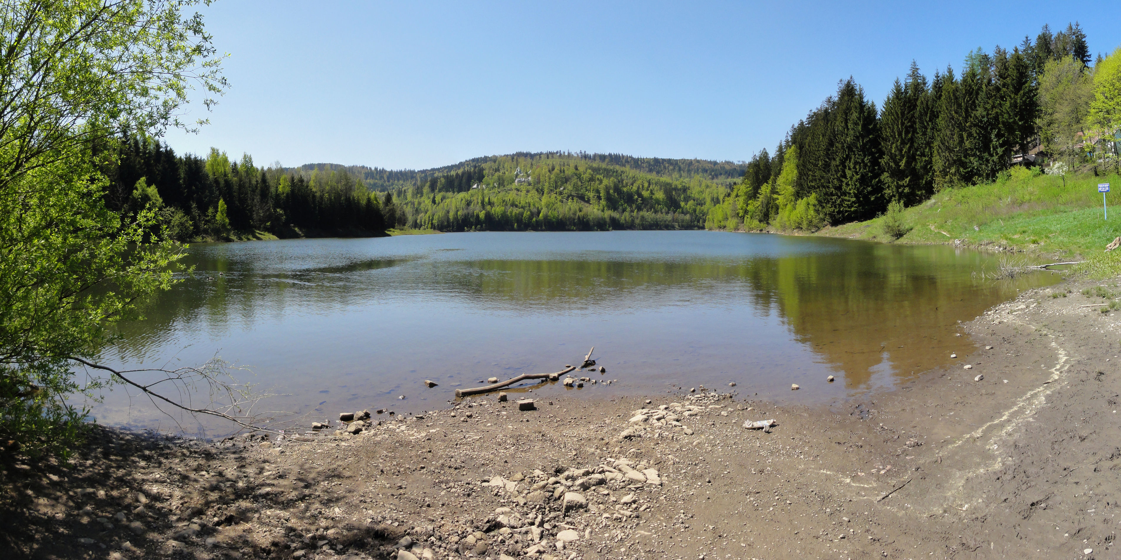 Czerniańskie Lake from Biała Wisełka site in Wisła-Czarne